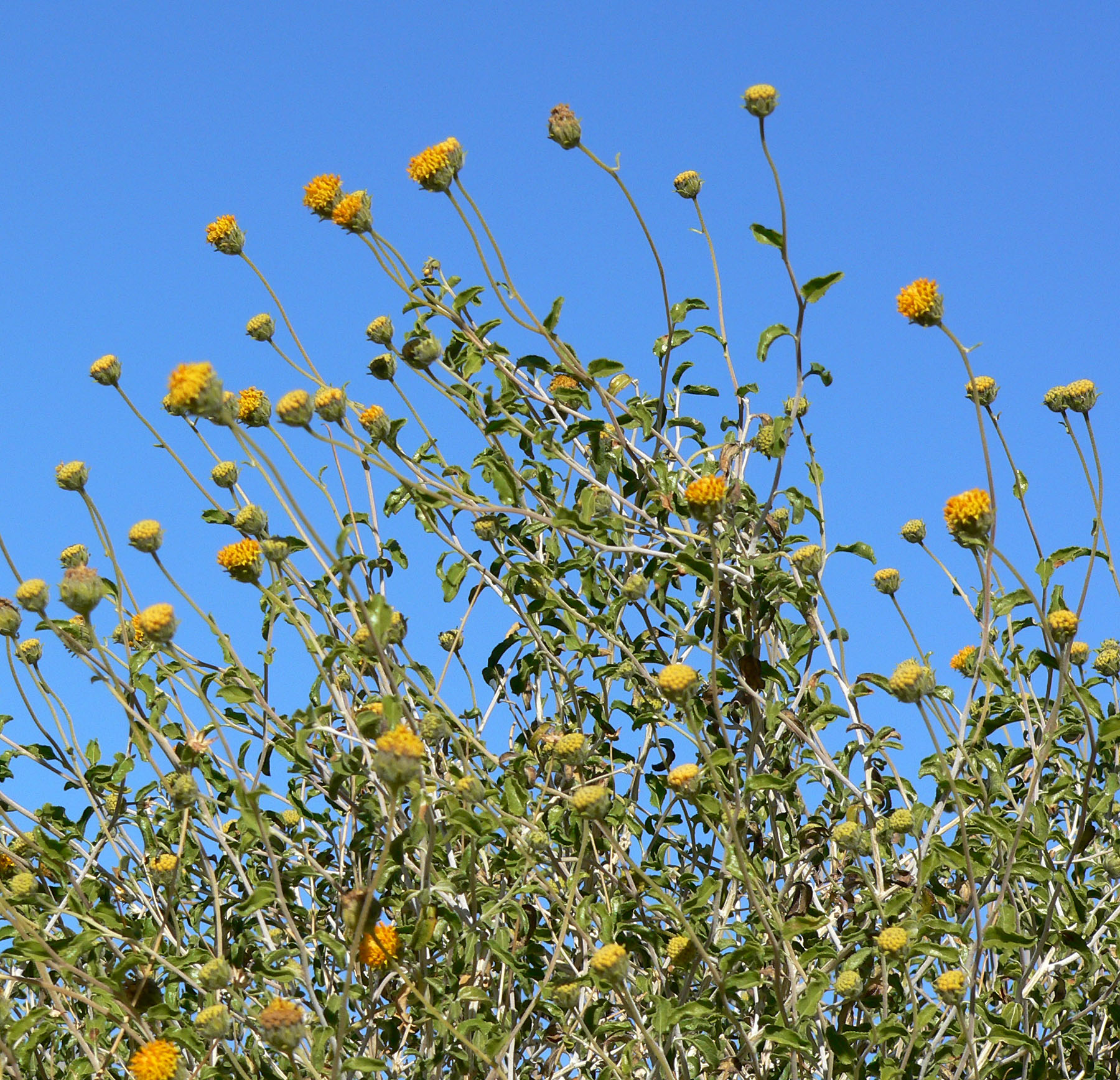 Encelia frutescens — button brittlebush. Blooming in a wash in the Mojave Desert, east of the Dead Mountains near the junction of the Needles Highway and River Road, in southeastern California.